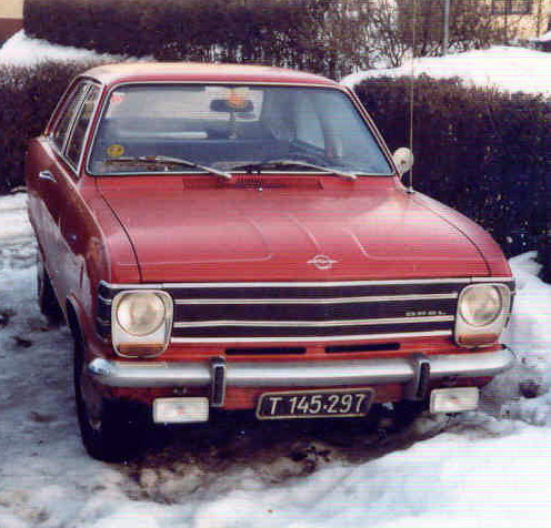 Opel Olympia A with Tirolean license plate